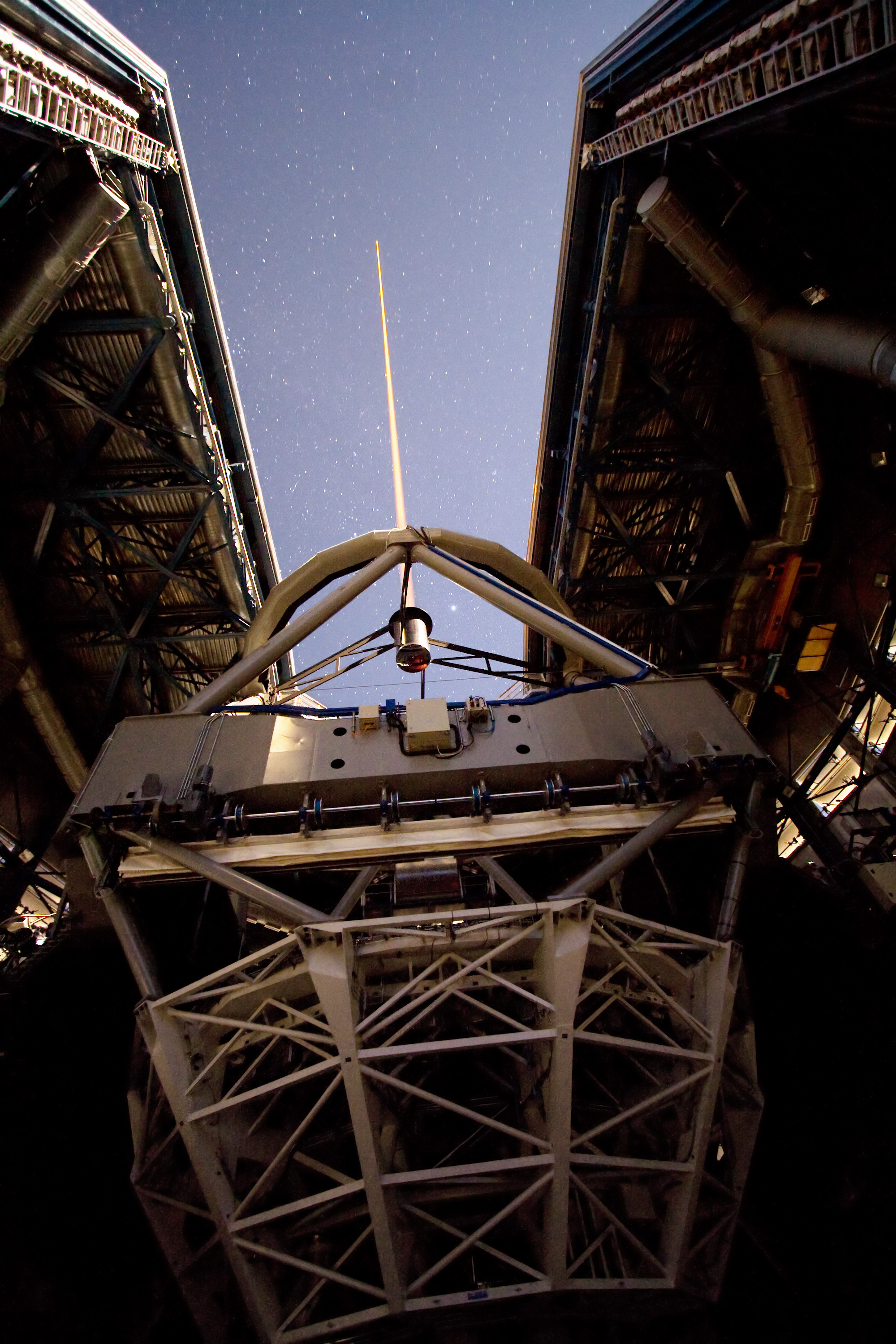 A laser beam shoots out of Yepun, the fourth Unit Telescope of Europe’s flagship observatory, ESO’s Very Large Telescope (VLT). This beam is used to create an artificial star above Paranal to assist the adaptive optics instruments on the VLT. Adaptive optics is a technique that allows astronomers to overcome the blurring effect of the atmosphere and obtain images almost as sharp as would be possible if the whole telescope were placed in space, above Earth's atmosphere. Adaptive optics, however, requires a nearby reference star that has to be relatively bright, thereby limiting the area of the sky that can be surveyed. To overcome this difficulty, astronomers at Paranal use a powerful laser that creates an artificial star where and when they need it (see eso0607 and eso0727). Launching such a powerful laser from a telescope is a state-of-the-art technology, whose set-up and operation is a continuous challenge. As seen from the image, this is, however, a technology now well mastered on Paranal. The image was taken from inside the dome of the telescope and reveals nicely how the laser is located on top of the 1.2-metre secondary mirror of the telescope.